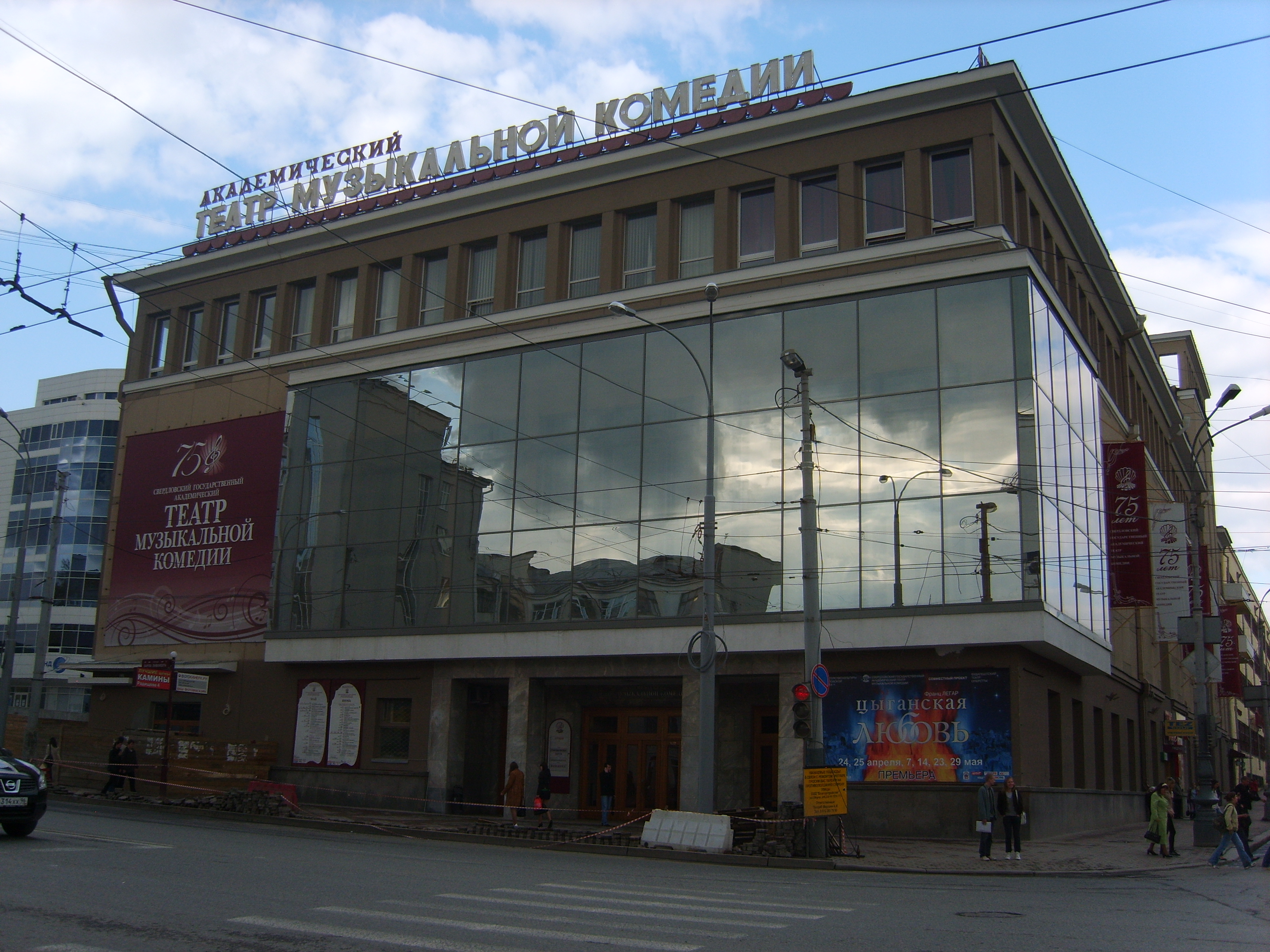 Свердловский академический театр музыкальной комедии